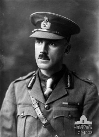 Portrait of Brigadier General S C E Herring DSO, commanding 13th Australian Infantry Brigade.